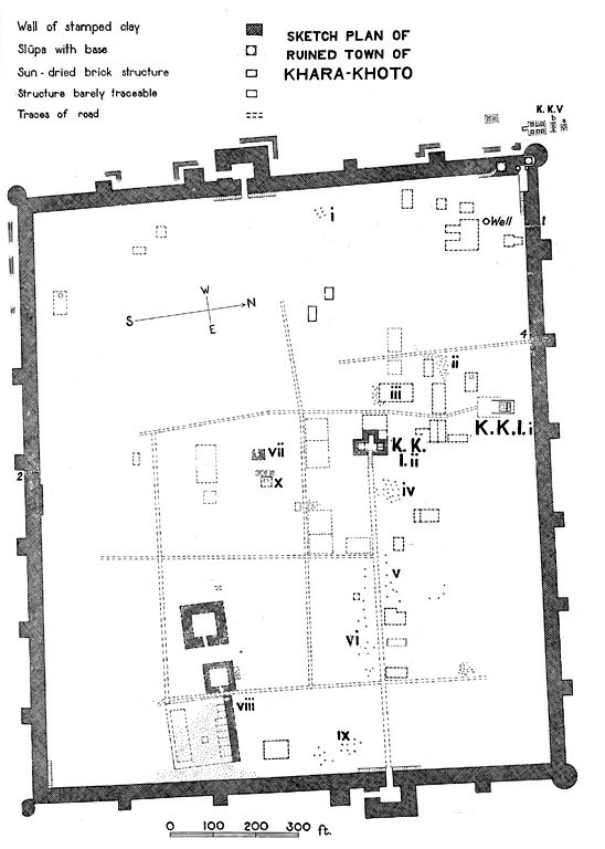 Stein's plan of Kharakhoto from Innermost Asia, Vol. III, Pl. 18.